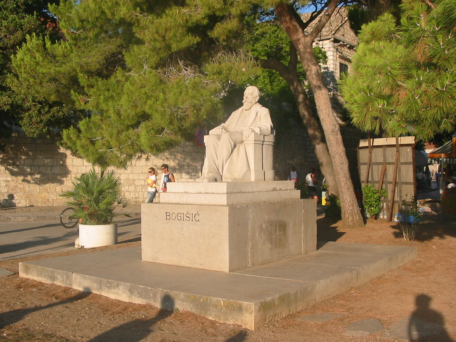 Statue of Bogisic